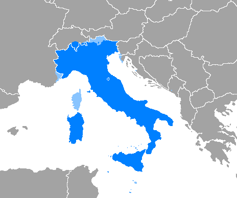 The Italian language in Europa spoken by the majority spoken by a minority